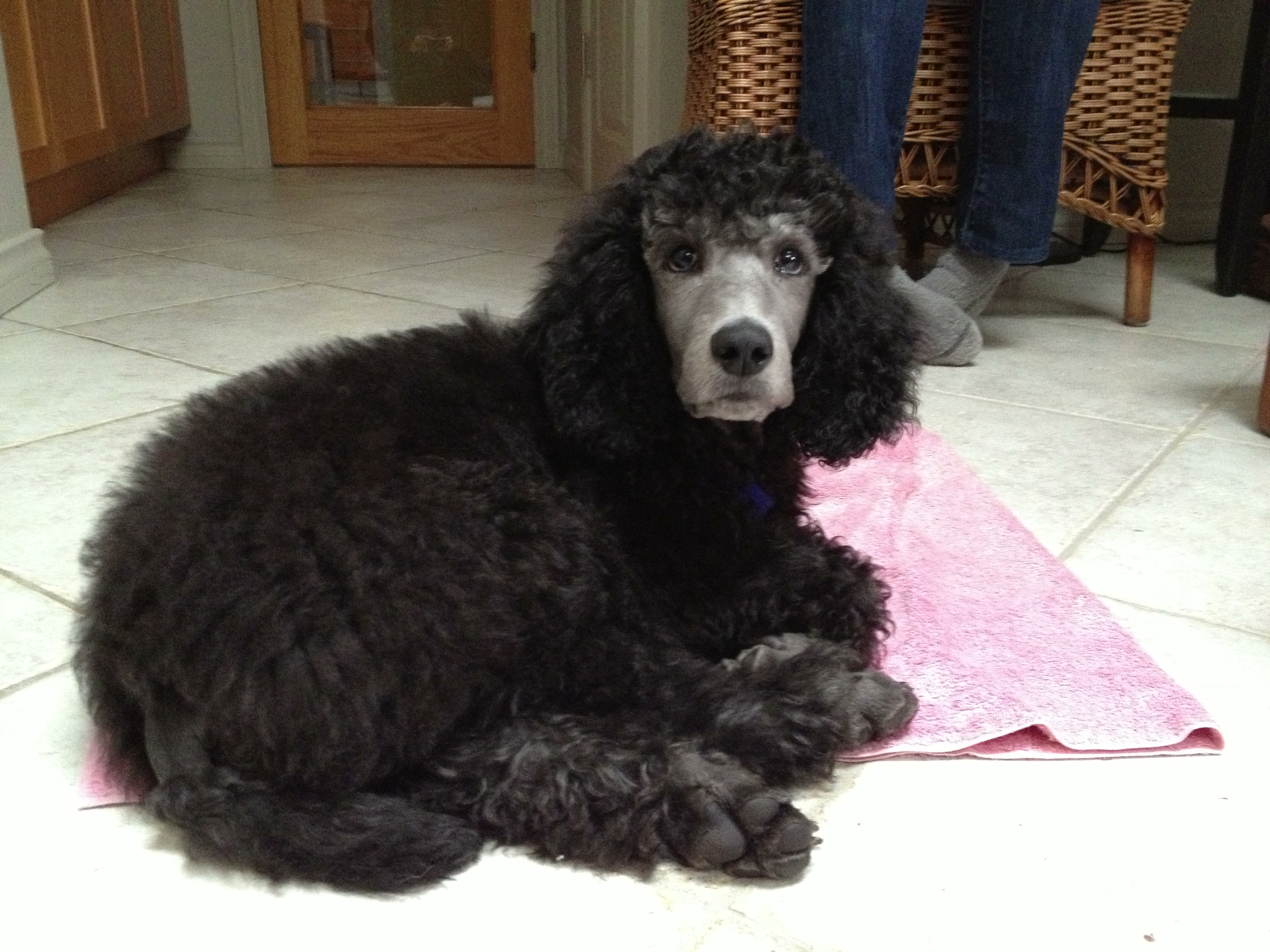 A new standard in our (extended) family. He will be gray, like Smokey, when he grows up.